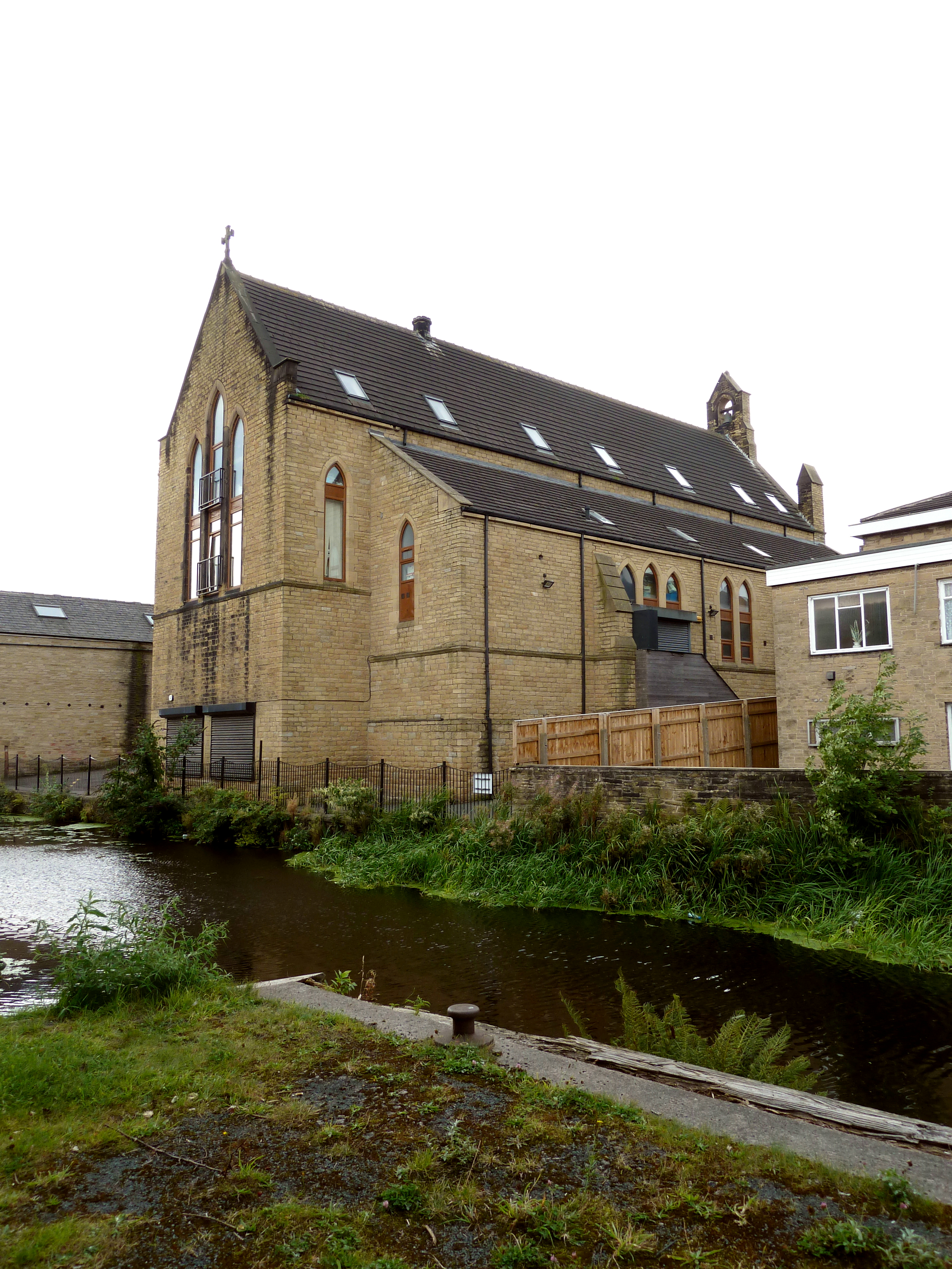 Former Church of St Mark, Old Leeds Road, Huddersfield, North Yorkshire, England. Built 1887, designed by architect William Swinden Barber. Viewed from north-east, with Huddersfield Broad Canal in foreground.